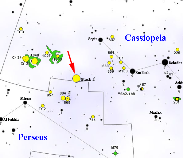 Map of Stock 2